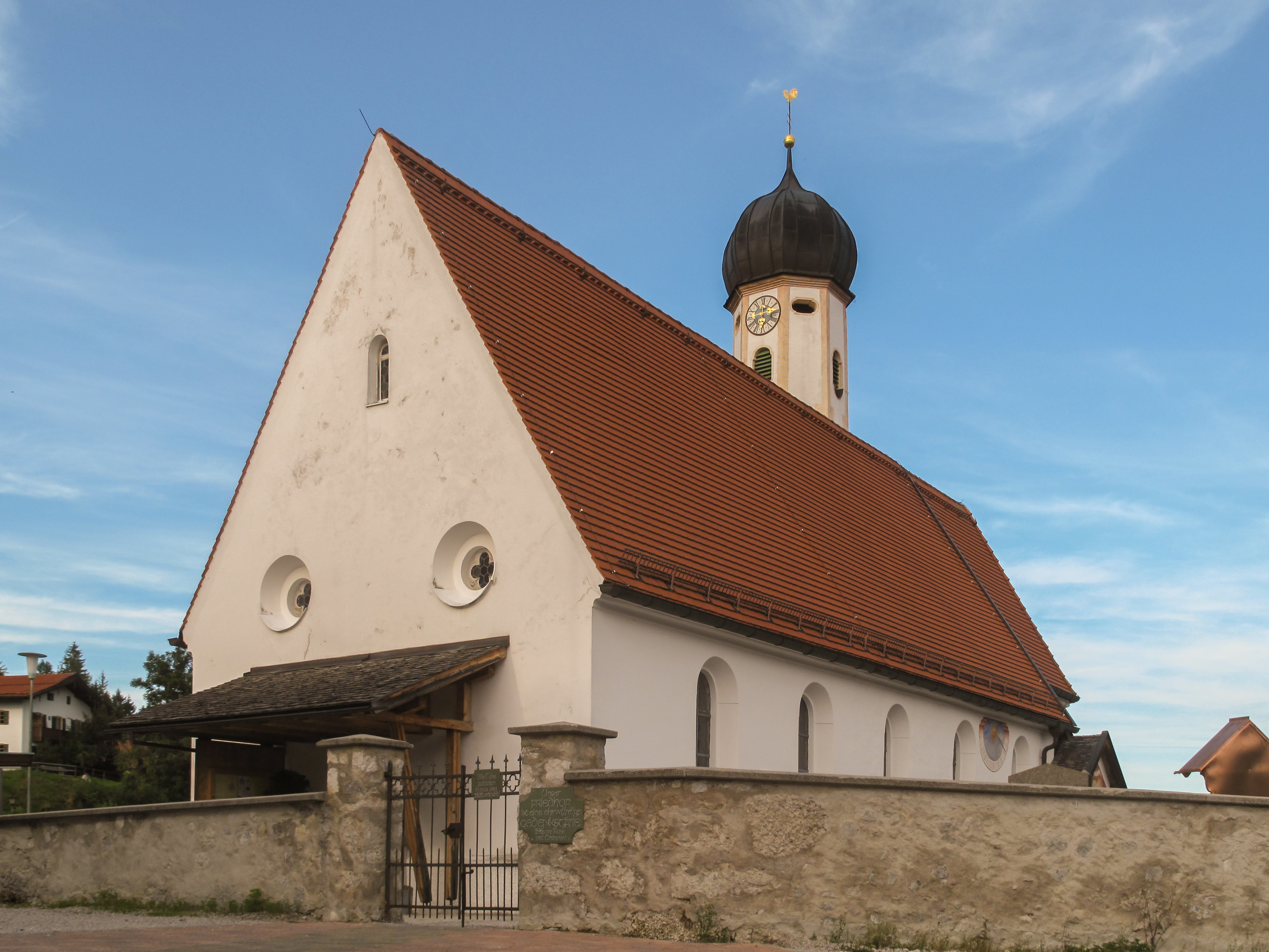 Wallgau, church: Kuratiekirche Sankt Jakob